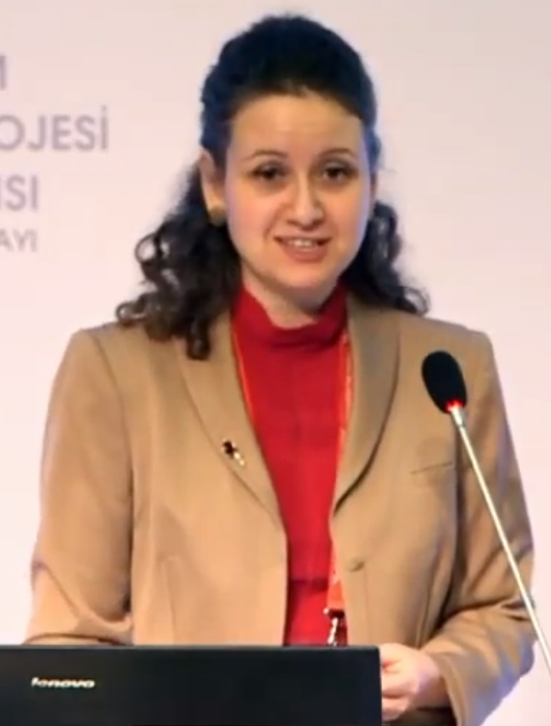 Professor Bilge Demirköz, of Middle East Technical University speaks at the panel “Open Science, Research Data and Open Access” of the 3rd National Open Access Workshop in Ankara. On 20-21 October 2014, Anadolu University Libraries Consortium (ANKOS) Open Access and Institutional Archives (AEKA) Group, Higher Education Council (YÖK) Institutional Archives and Open Access (KAAE) Group and Hacettepe University Information and Document Management Department Nearly 350 delegates from various universities, public institutions, professional associations and publishing sector participated in the 3rd National Open Access Workshop in Ankara.